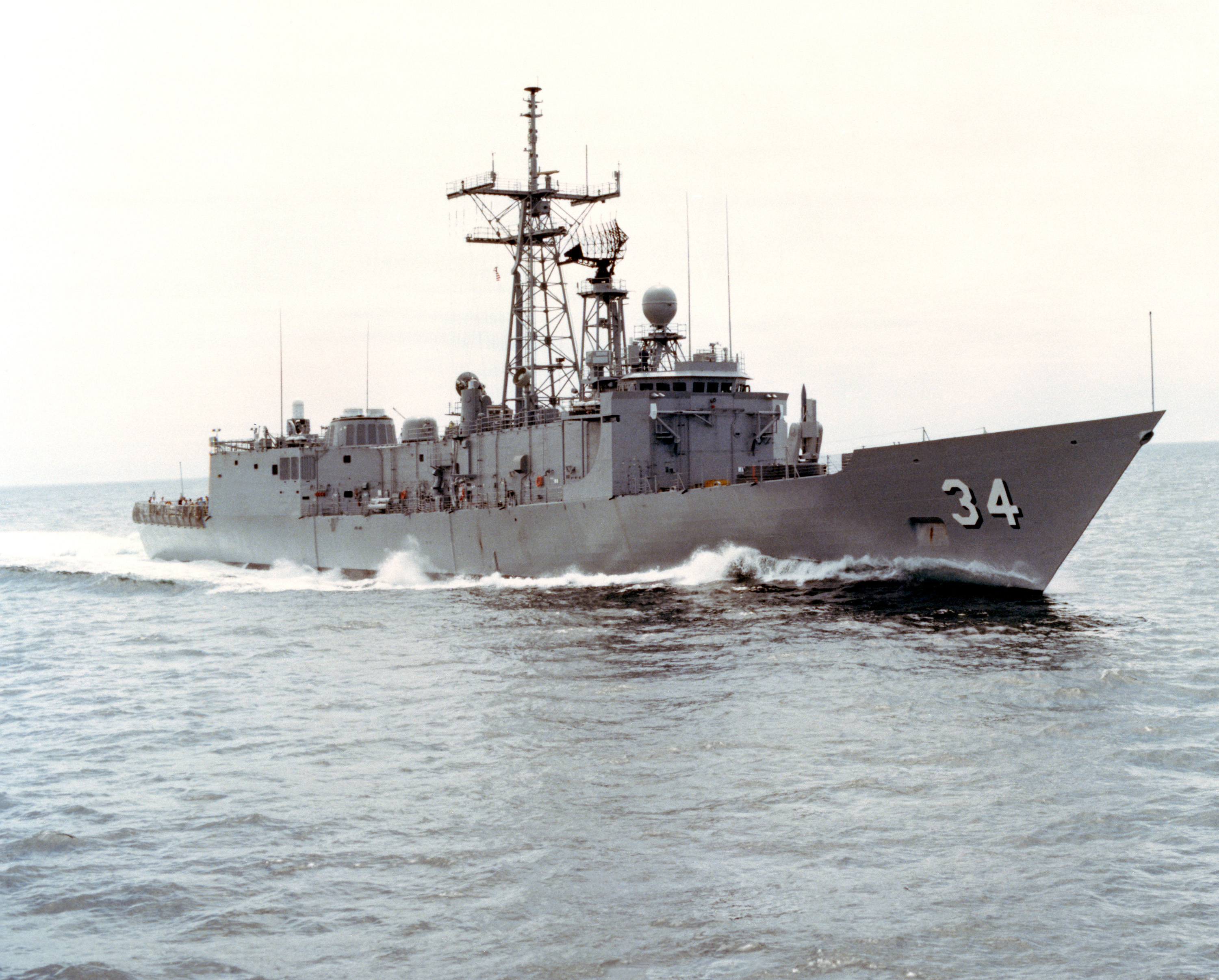 A starboard bow view of the guided missile frigate AUBREY FITCH (FFG-34) underway during sea trials.